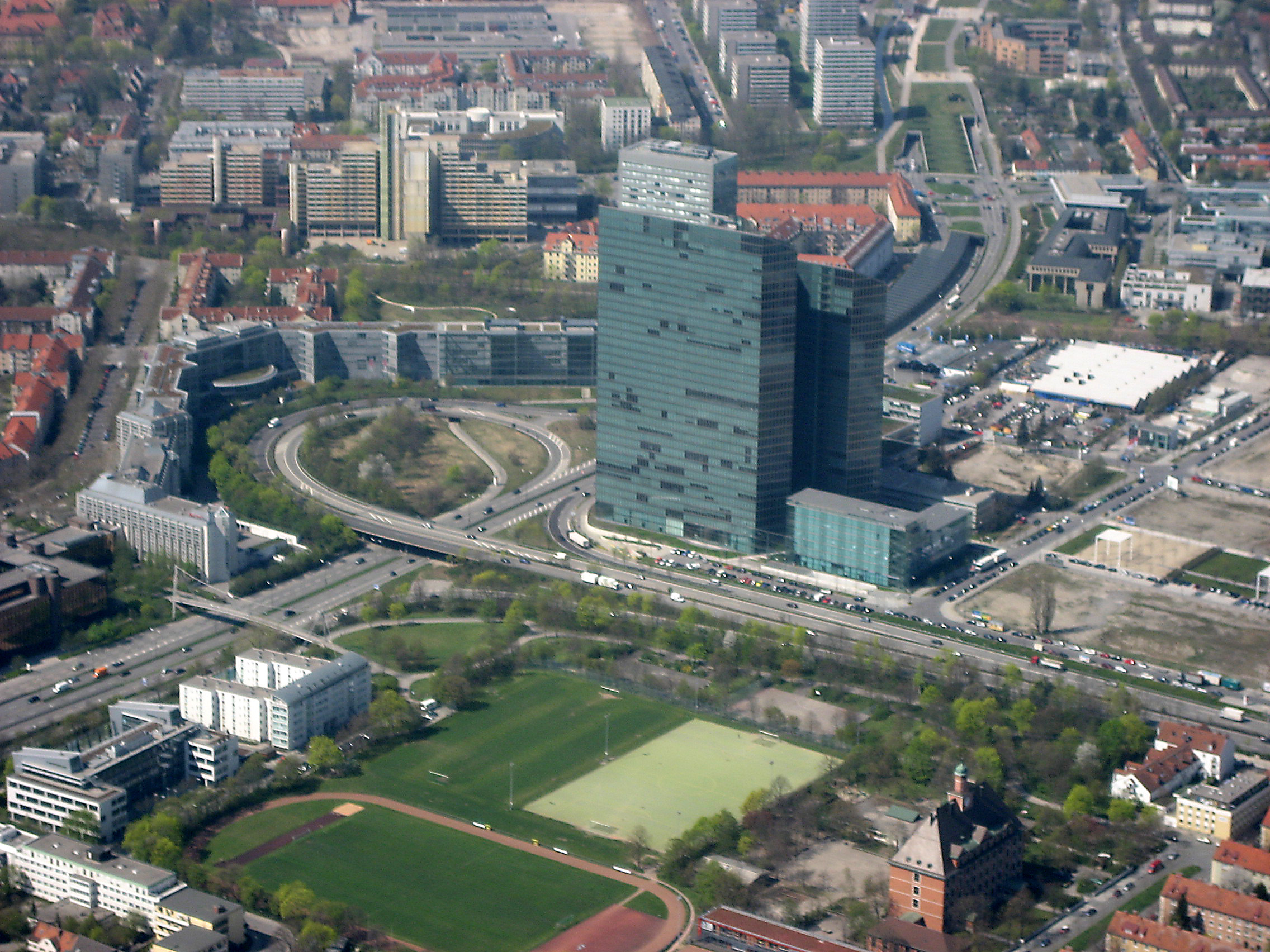 Aerial photograph of the Higlight Towers in Munich, Bavaria